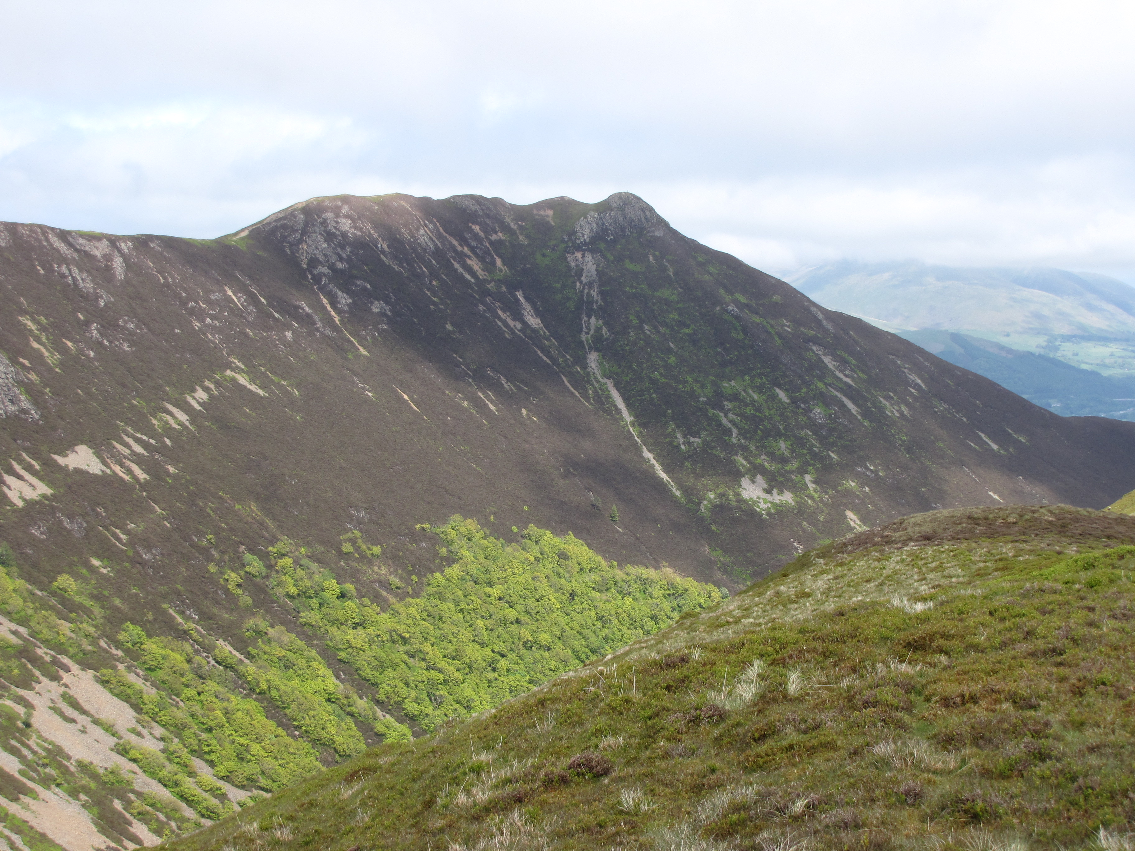 Causey Pike seen from the adjacent fell of Ard Crags in the English Lake District.